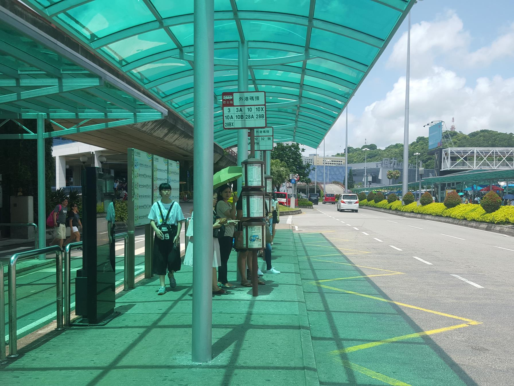 Macau Ferry Terminal Bus Station